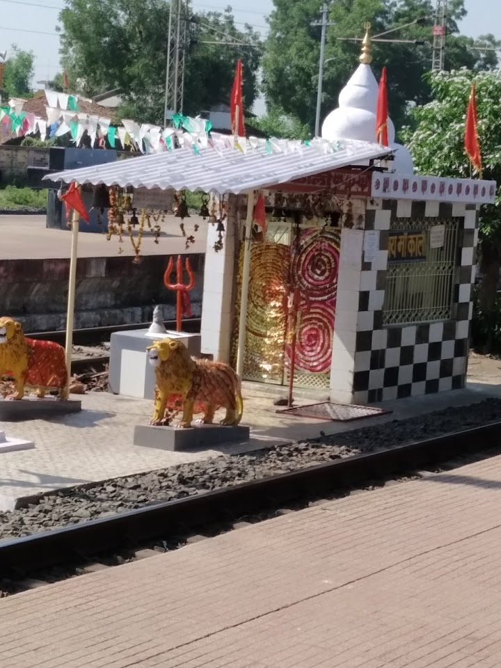 A Kali temple built in between 2 tracks at a Railway station named Tumsar Road. This is a small station which you'll come across while travelling in Howrah Mail via Nagpur. Usually, you hear announcement from Railways stating not to cross the tracks but here you'll need to ignore it. Faith will win over...